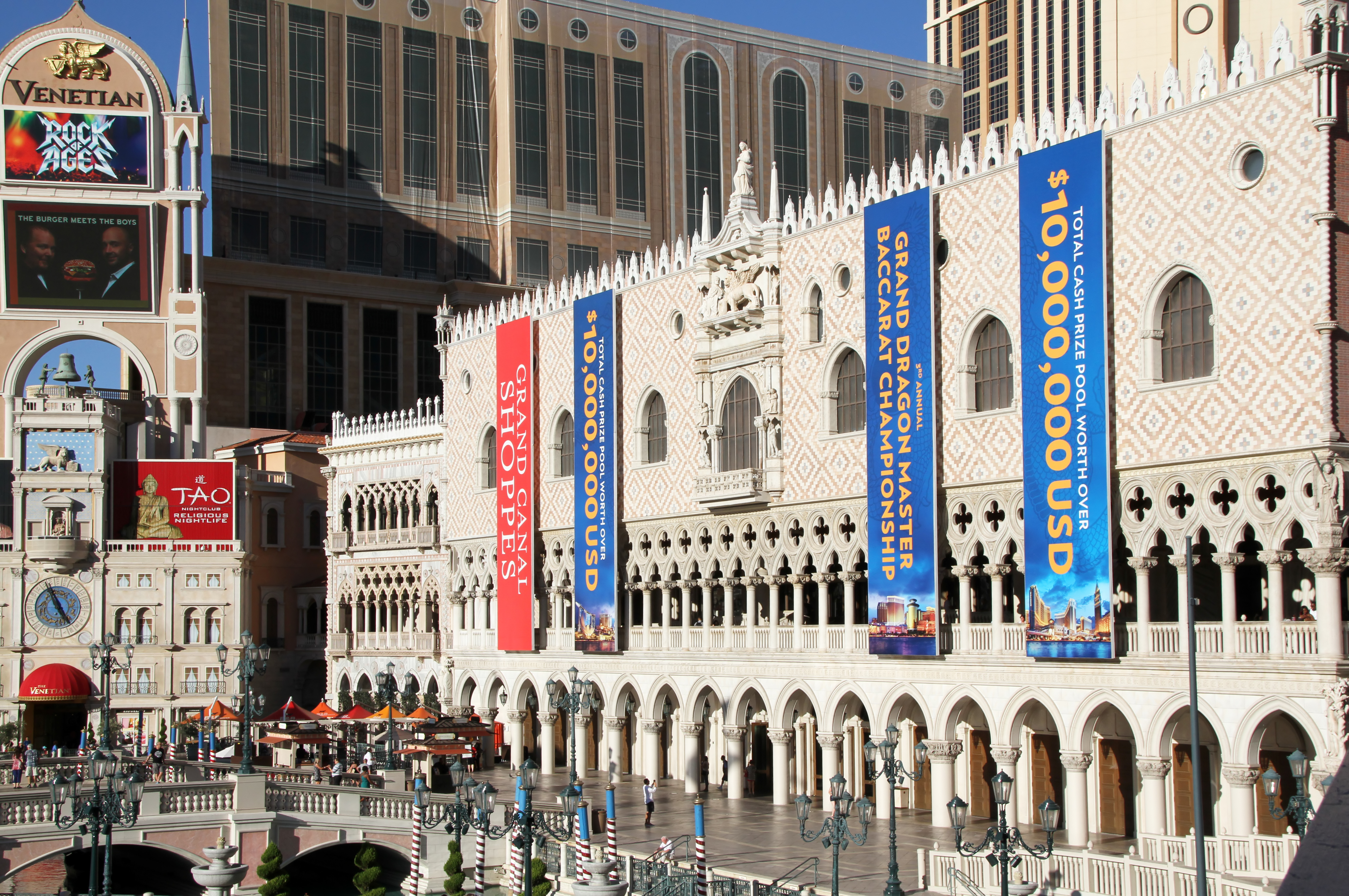 The Venetian 4